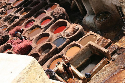 Leather dyeing pits in Fes. Photo by Troy Pickard. (WT-shared) Blackberrylaw 22:16, 22 March 2007 (EDT).